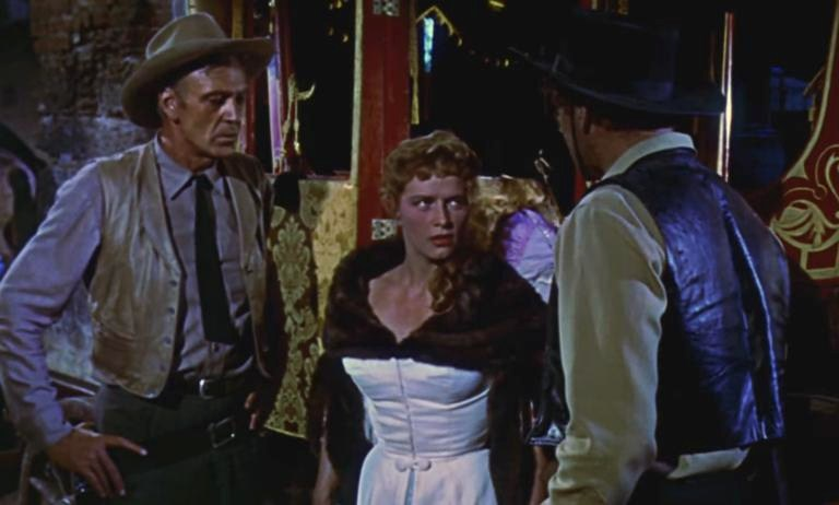 L. to R. : Gary Cooper, Denise Darcel & Burt Lancaster in Vera Cruz - trailer (cropped screenshot)